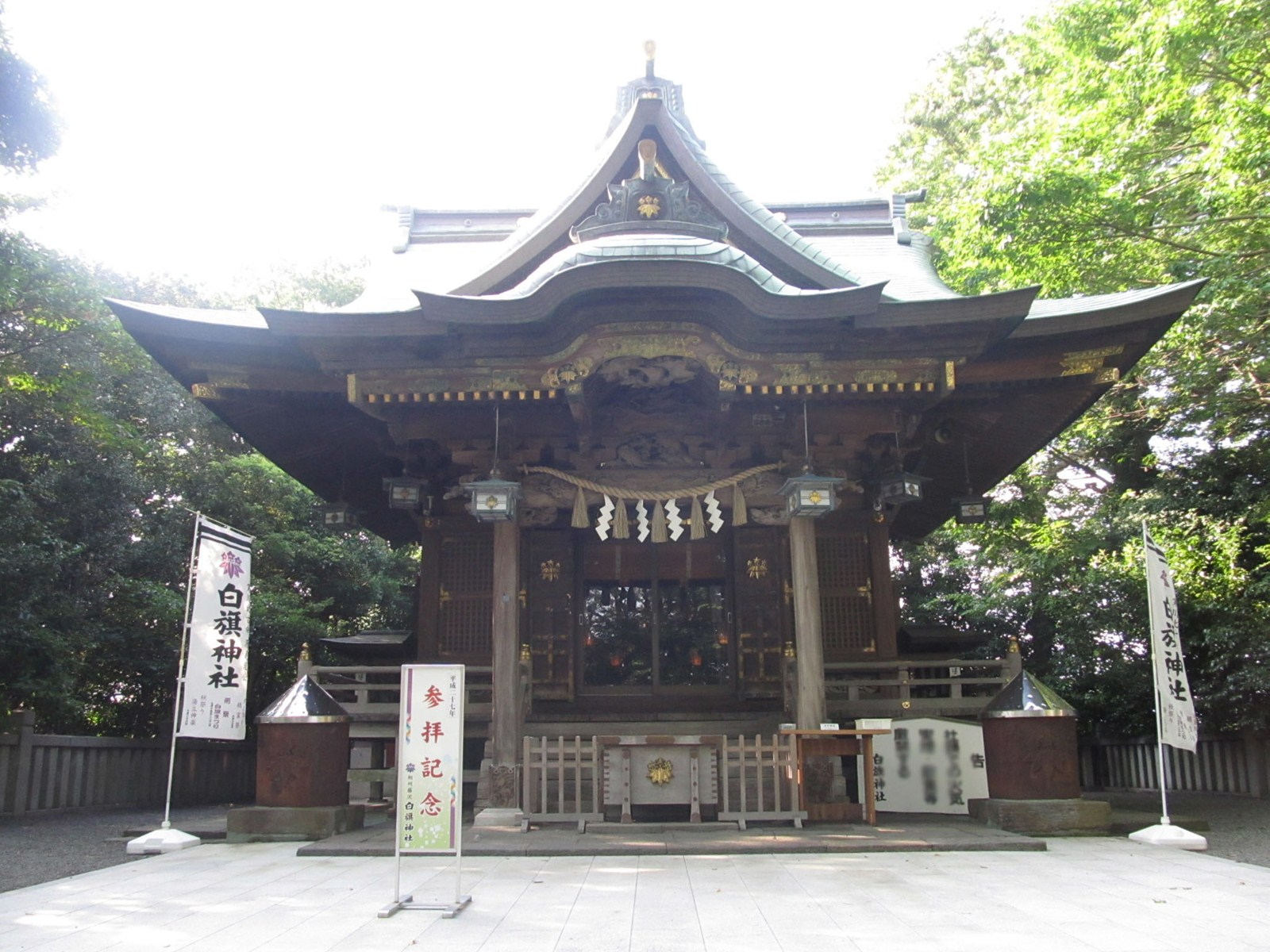 Main hall (Worship hall (haiden), Offertory hall (heiden), and Sanctuary (honden)) of Shirahata shrine in Fujisawa City, Kanagawa Prefecture, Japan